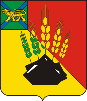 Mikhaylovsky rayon (Primorsky kray), coat of arms, 2006